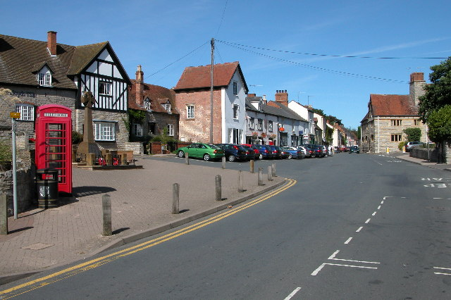 Bidford on Avon. The main street through the centre of Bidford-on-Avon is much quieter since a by-pass was built in the early 1970s.